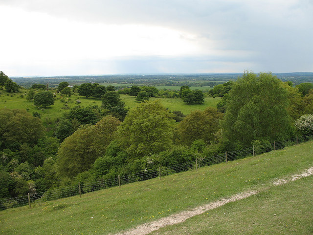 View across Great Kimble Warren. Several deep gorges cut into the front of the Downs. Great Kimble warren is but one and leads down into Happy Valley - shades of Desperate Dan for those who used to read comics.